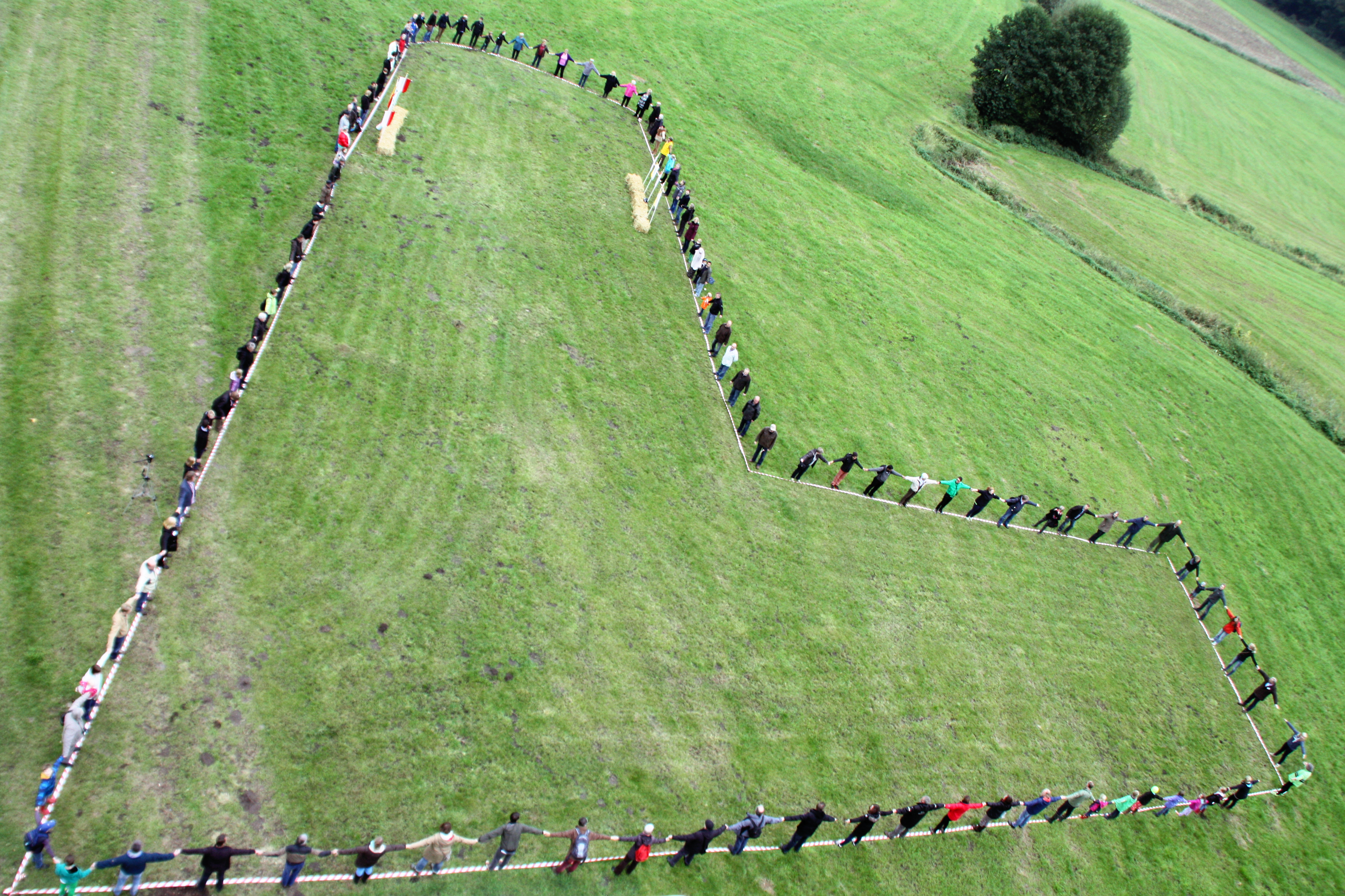 The monastery of Kleinburlo near Darfeld in Kreis Coesfeld, Germany, was torn down in the first decades of the 19th century. The monastery is subject of "Expedition Münsterland", a project of the University of Münster.